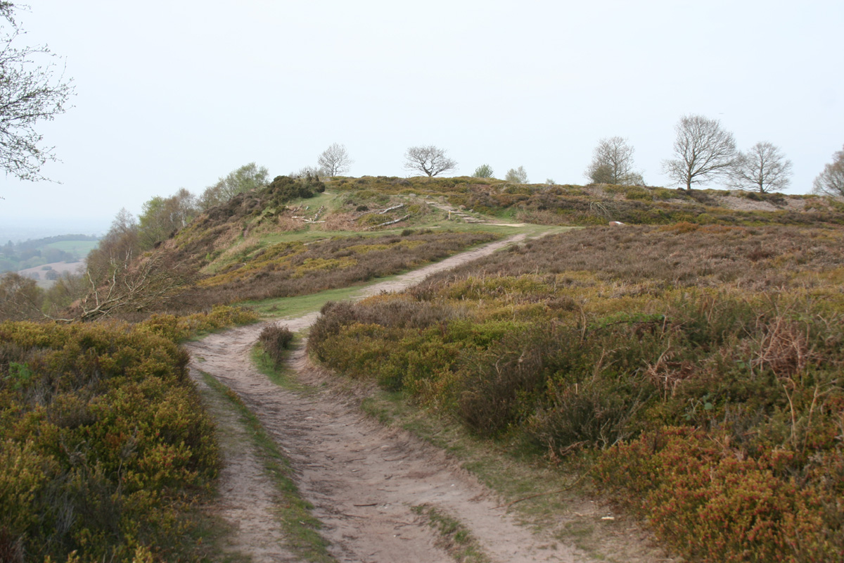 View towards the hill fort of Maiden Castle on the southern high point of the southern Bickerton Hill (SJ 497 526)